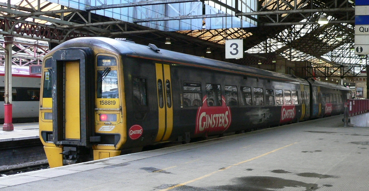 Arriva Trains Wales Class 158 DMU 158819 in a predominantly black livery advertising Ginsters Cornish pasties at platform 3 of Crewe railway station.